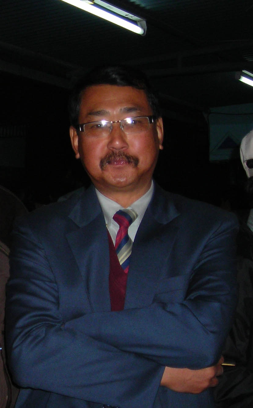 Tikaram Lepcha (Subba) in Kathmandu 2010